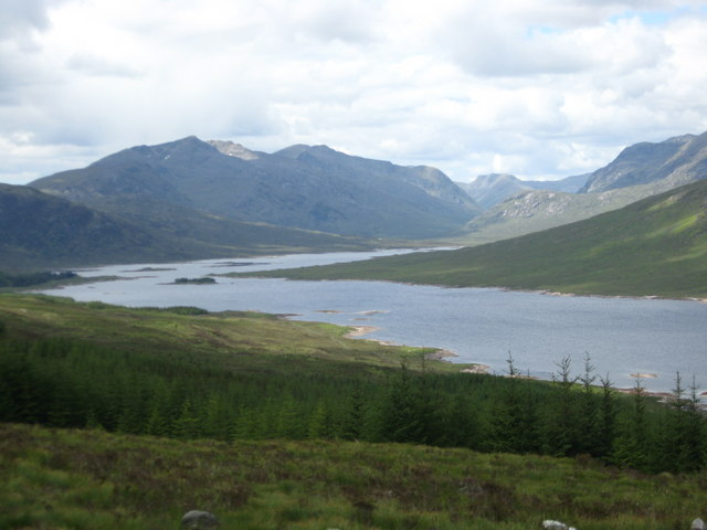 A scene overlooking forestry lands with Loch Loyne in the background From the A87 viewpoint.